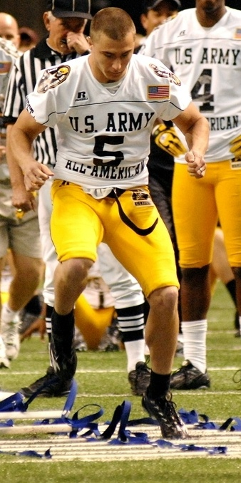 Sam McGuffie, a running back from Cypress, Texas, runs through the obstacle course during the skills competition. McGuffie is one of 91 of the top athletes in the nation who will compete in the Army-sponsored “All-American” Bowl high-school football contest in the Alamodome on Jan. 5th.